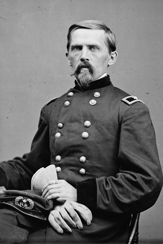 Gen. W.P. Carlin, U.S.A.